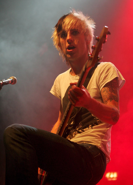 Matthew Leone.